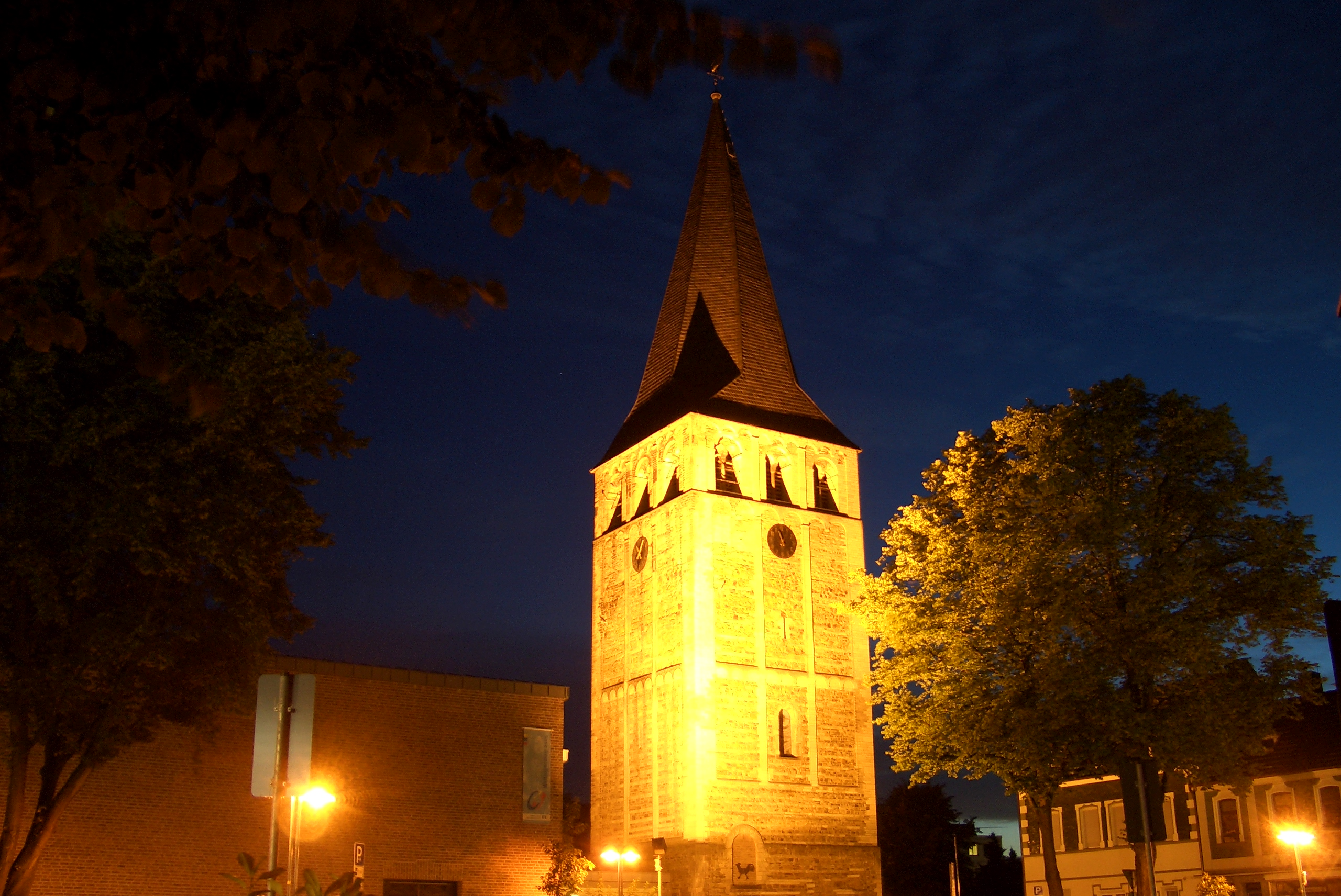 Description: This image shows the catholic church "St. Martin" in the German city Langenfeld (Rheinland), district Richrath. Source: Selfmade Author: Stephan Barche